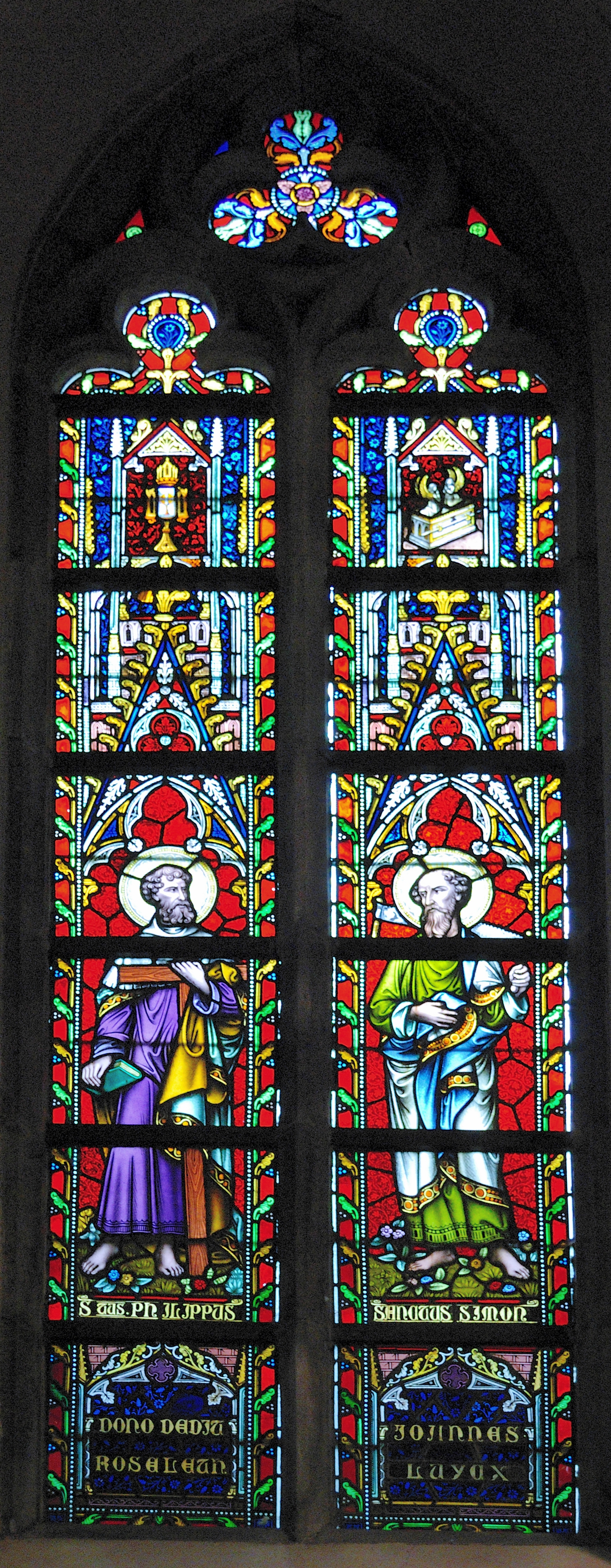 Interior of Saint Michael's church at the village of Hekelgem, commune of Affligem, Belgium. Stained glass window depicting Philippus and Simon. Nikon D60 f=32mm f/4.8 at 1/50s ISO 800. Postprocessed using Nikon ViewNX 1.5.2 and Gimp 2.6.8.